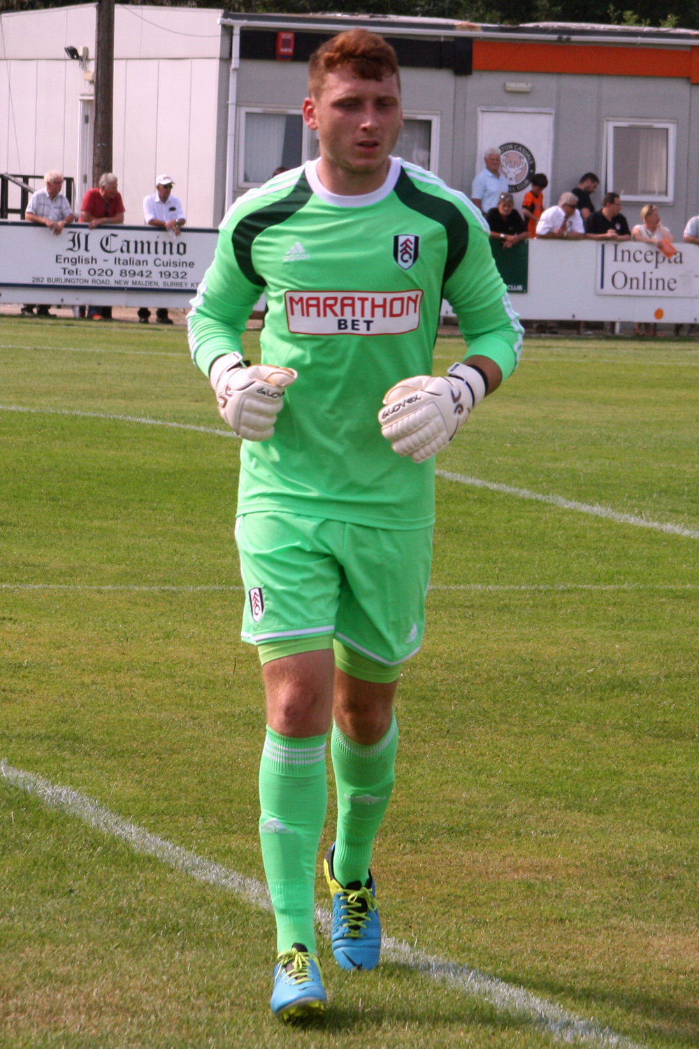 Calum Kitscha playing for Fulham U21s in a pre-season match at Walton Casuals on 12 July 2014